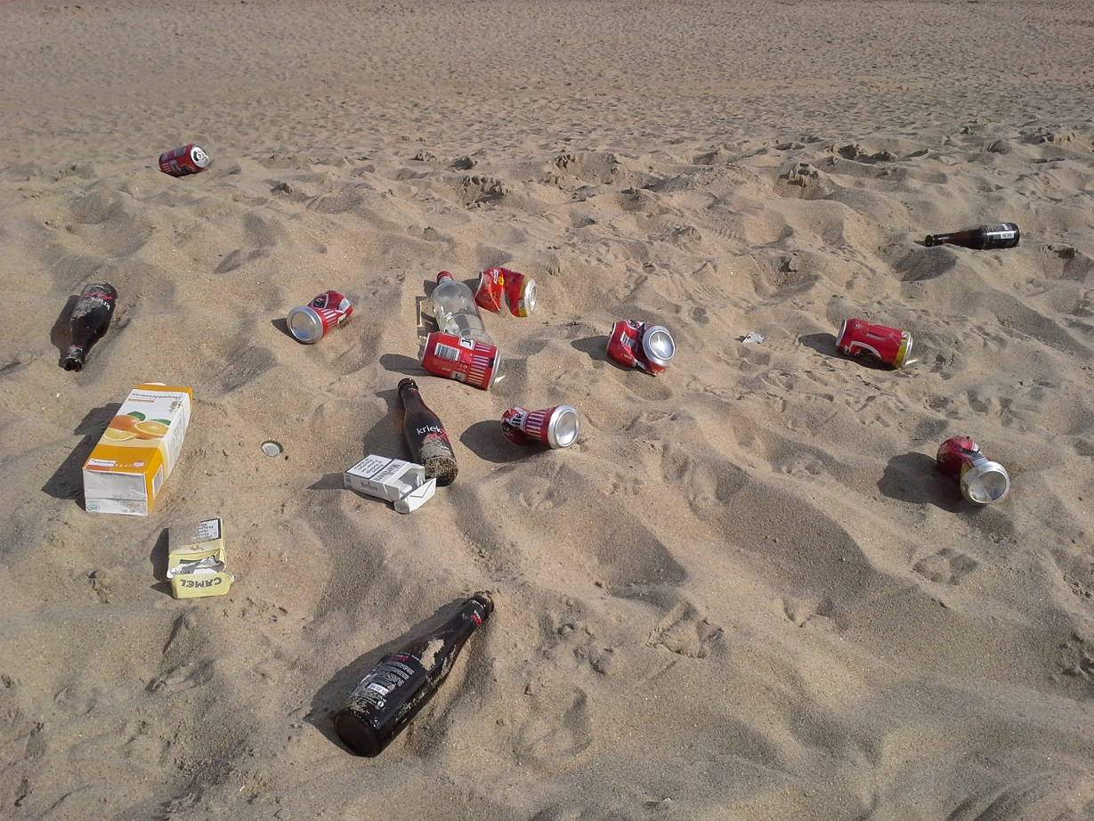 Illegal dumping in St. Idesbald